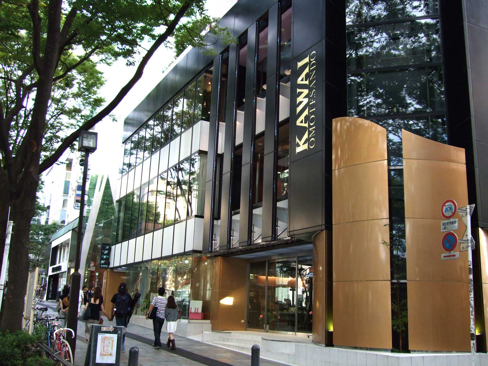 Kawai Omotesando in Shibuya, Tokyo, Japan.